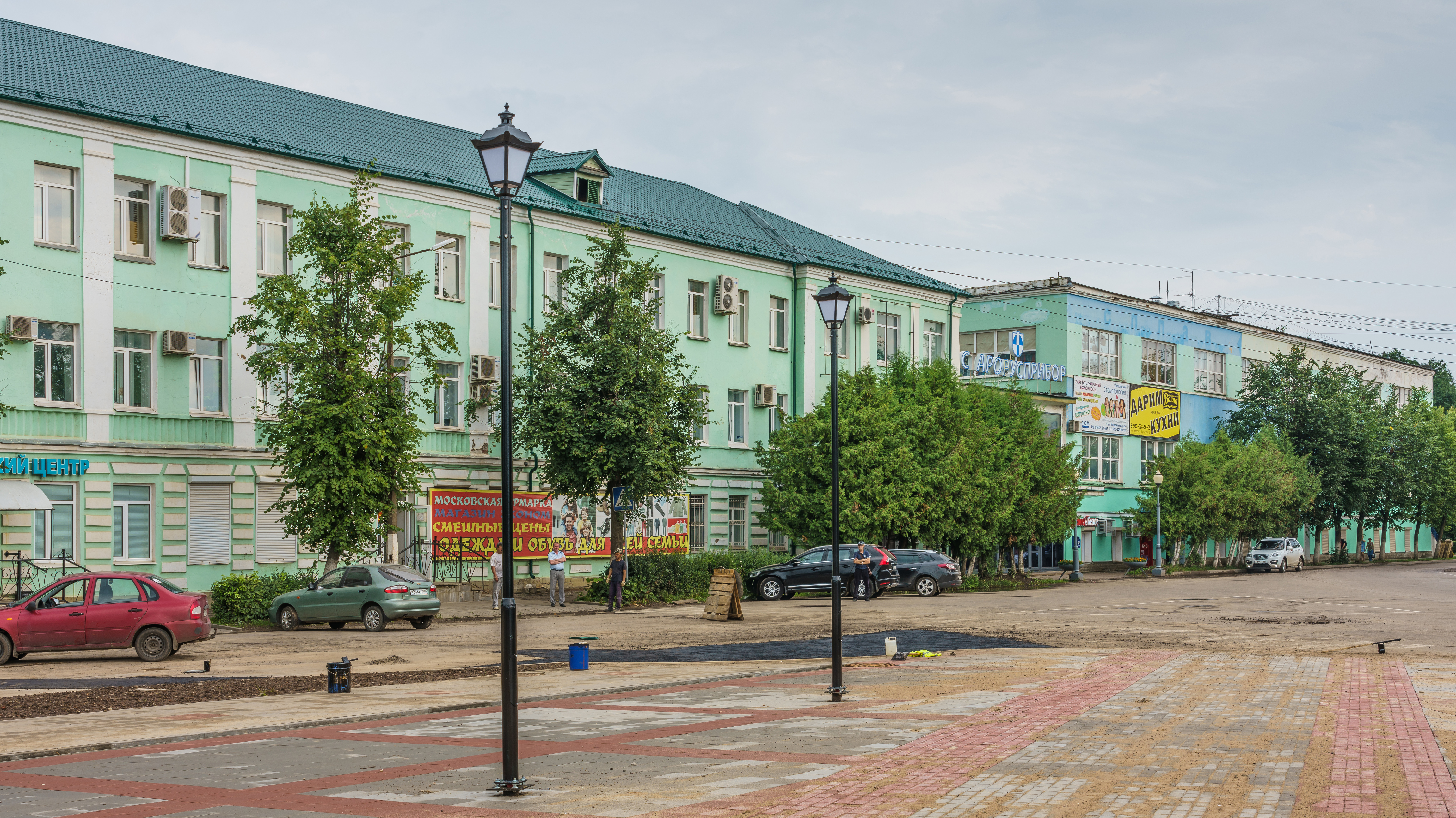 Industry building in Staraya Russa, Novgorod Oblast, Russia